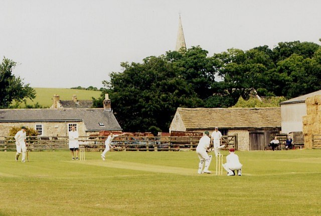 Village cricket, Ledsham The classic English village scene on midsummer's day, 2003. All Saints church spire pokes above the trees.